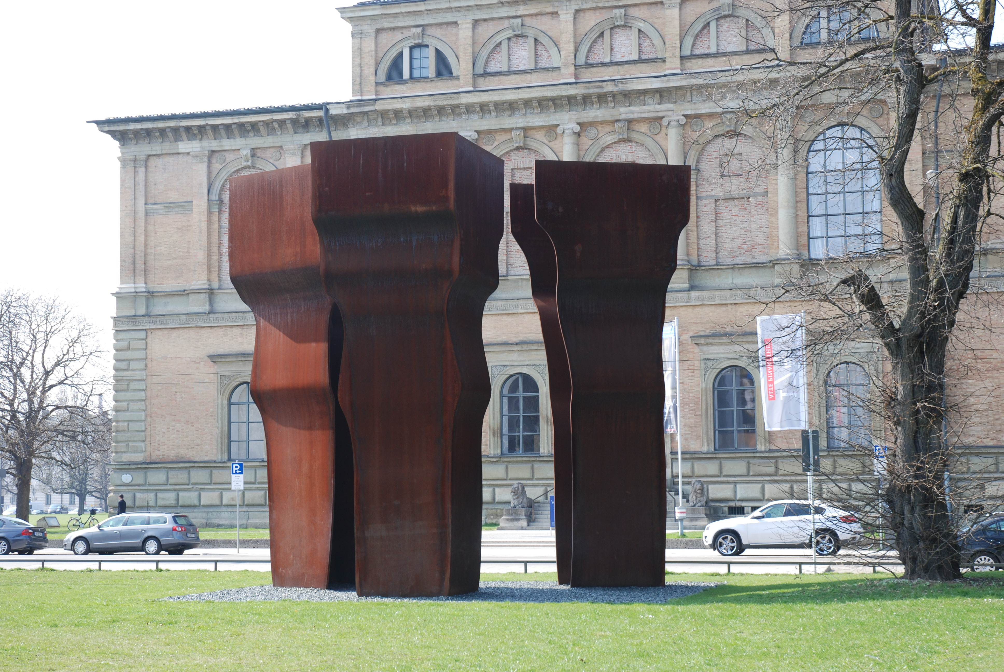 Eduardo Chillida´s Buscando la luz at the Skulpturenpark Pinakothek in München, Germany